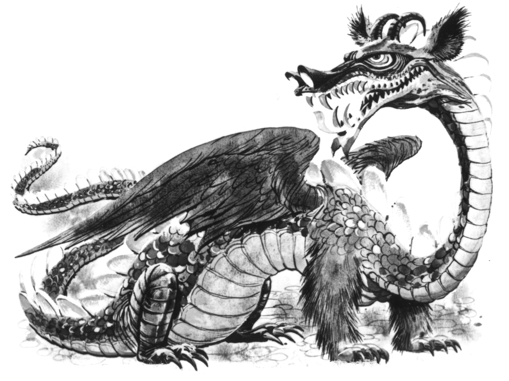 Dragon, monster